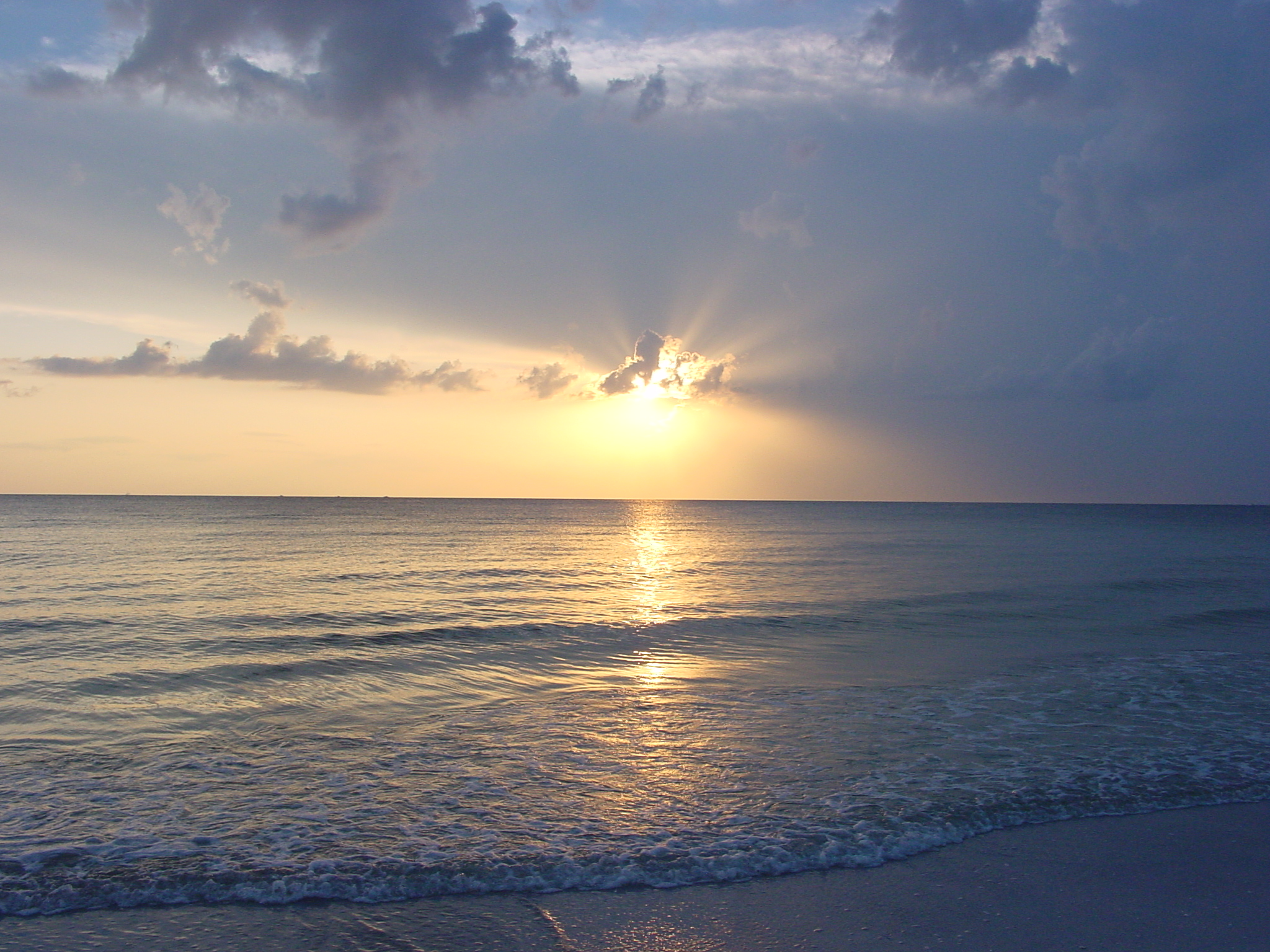 This photograph is of a sunset on North Beach at Fort De Soto Park, which is located south of St. Petersburg, FL. North Beach is frequently named as one of America's best beaches.